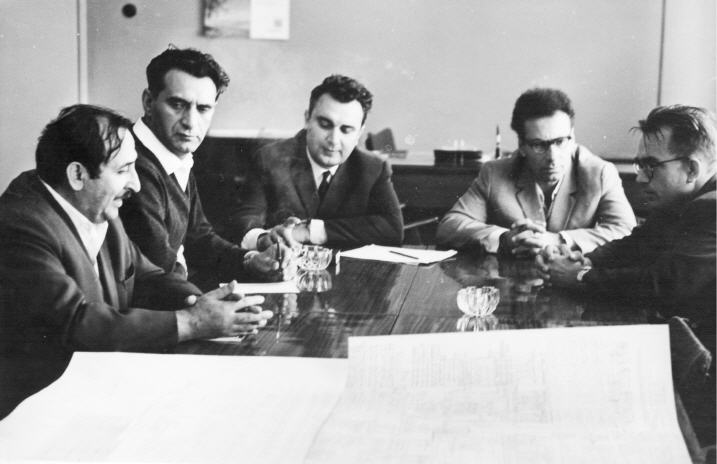 S.N. Mergelyan and A.V. Petrosian with Academician Glushkov at the Computing Center of the Armenian Academy of Sciences